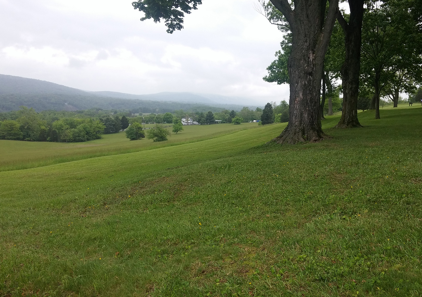 Harpers Ferry, Bolivar Heights and Blue Ridge